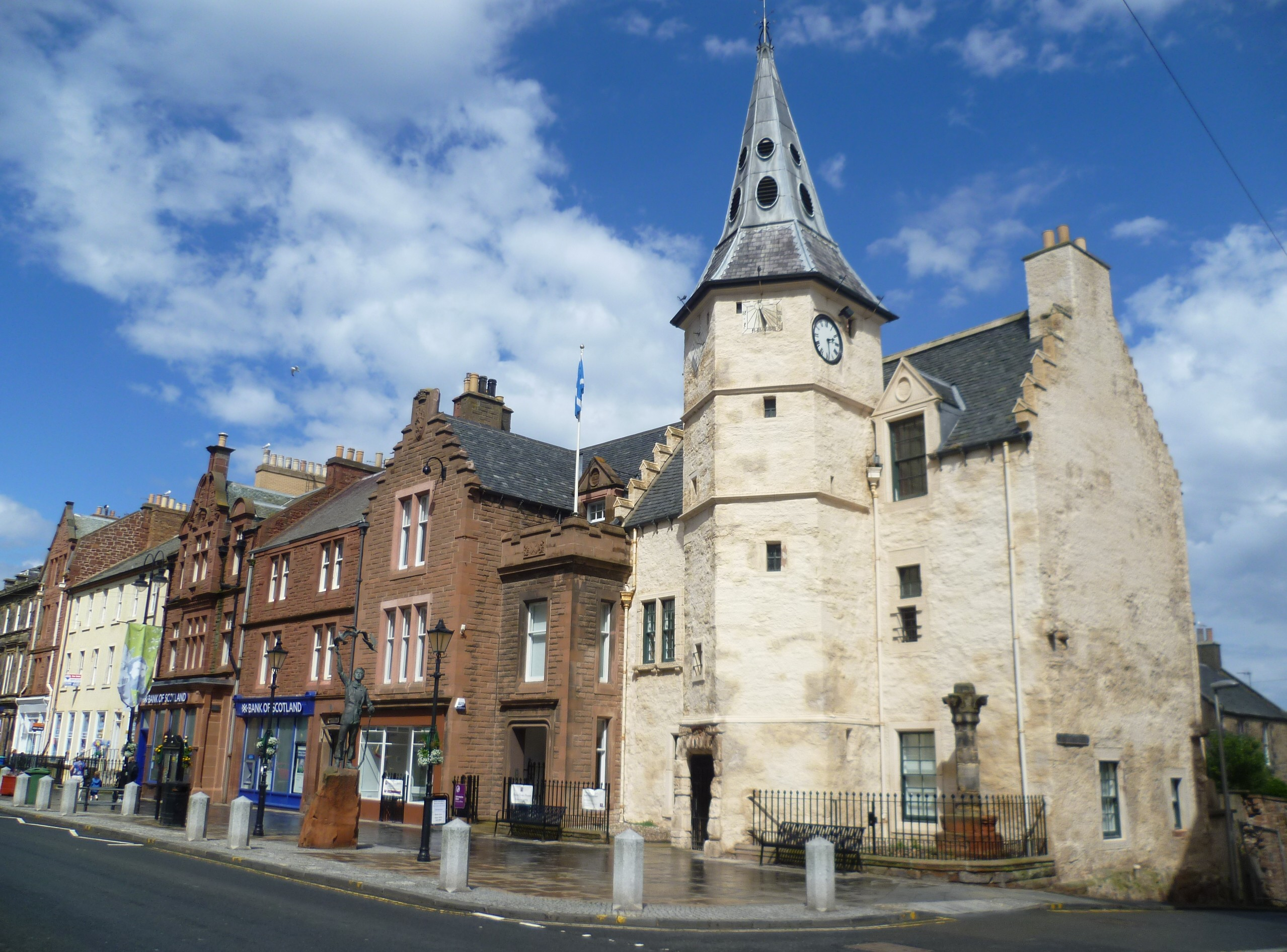 Tolbooth, Dunbar High Street